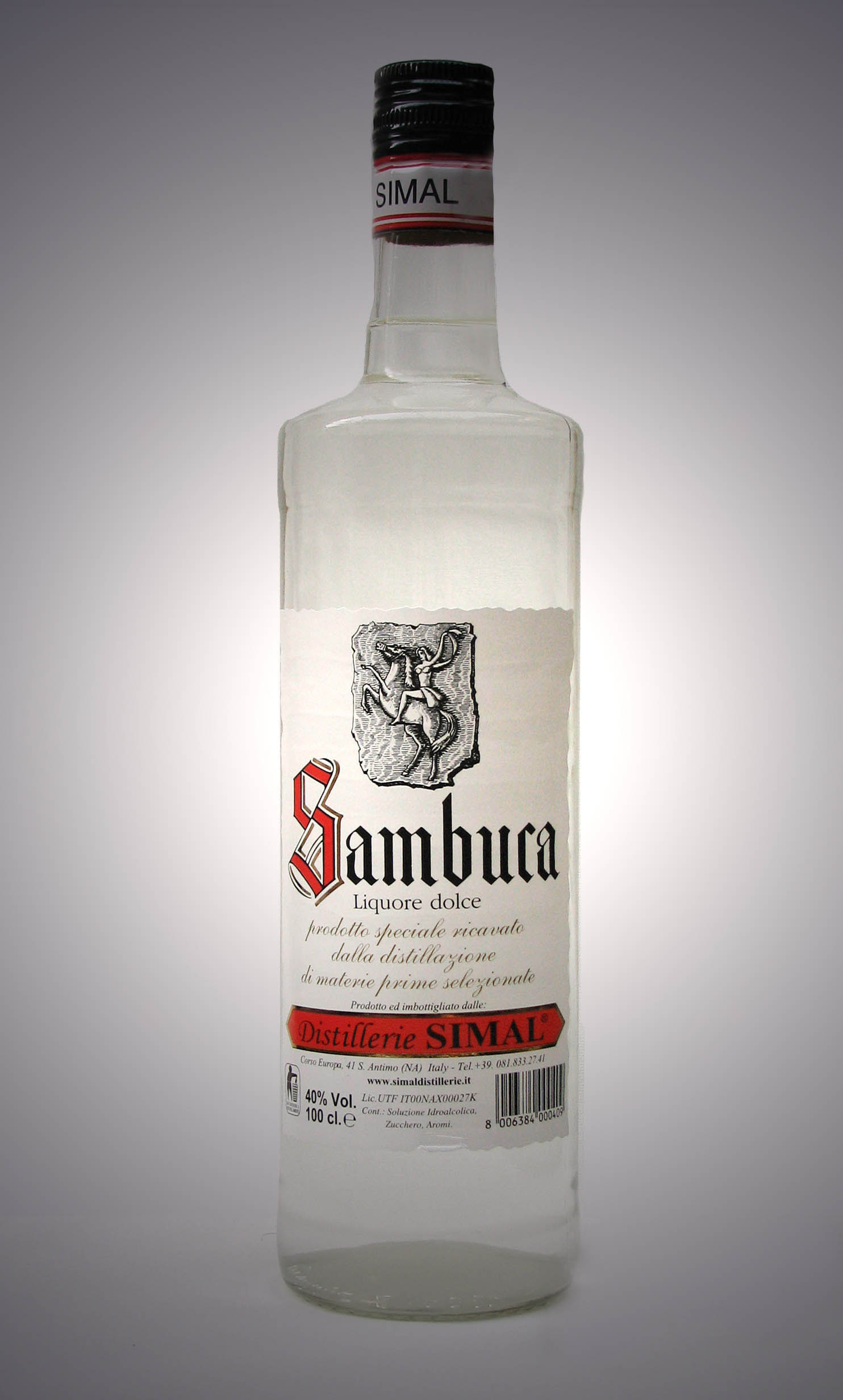 Sambuca SIMAL